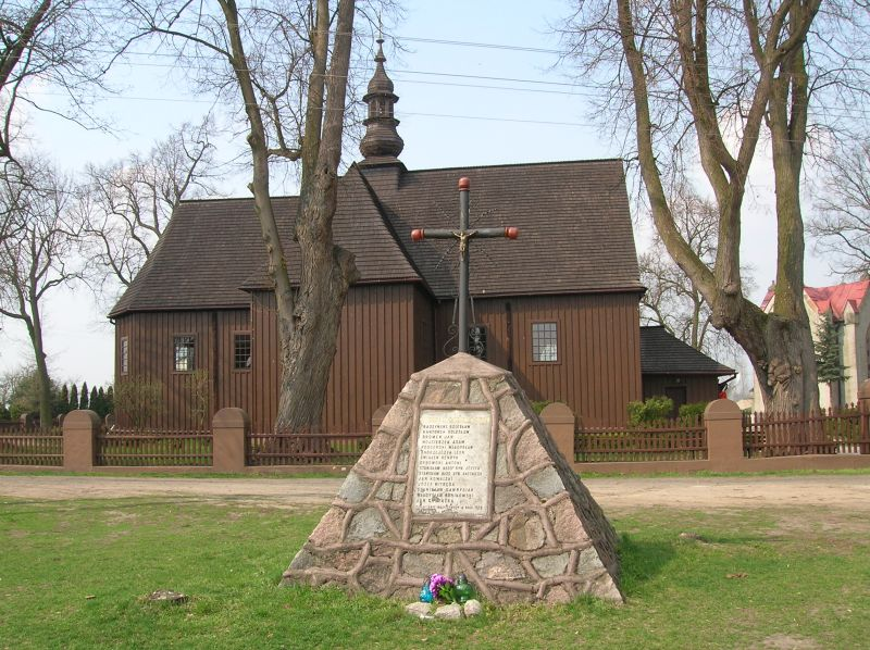 Saint Vitalis church in Stary Waliszew, Poland